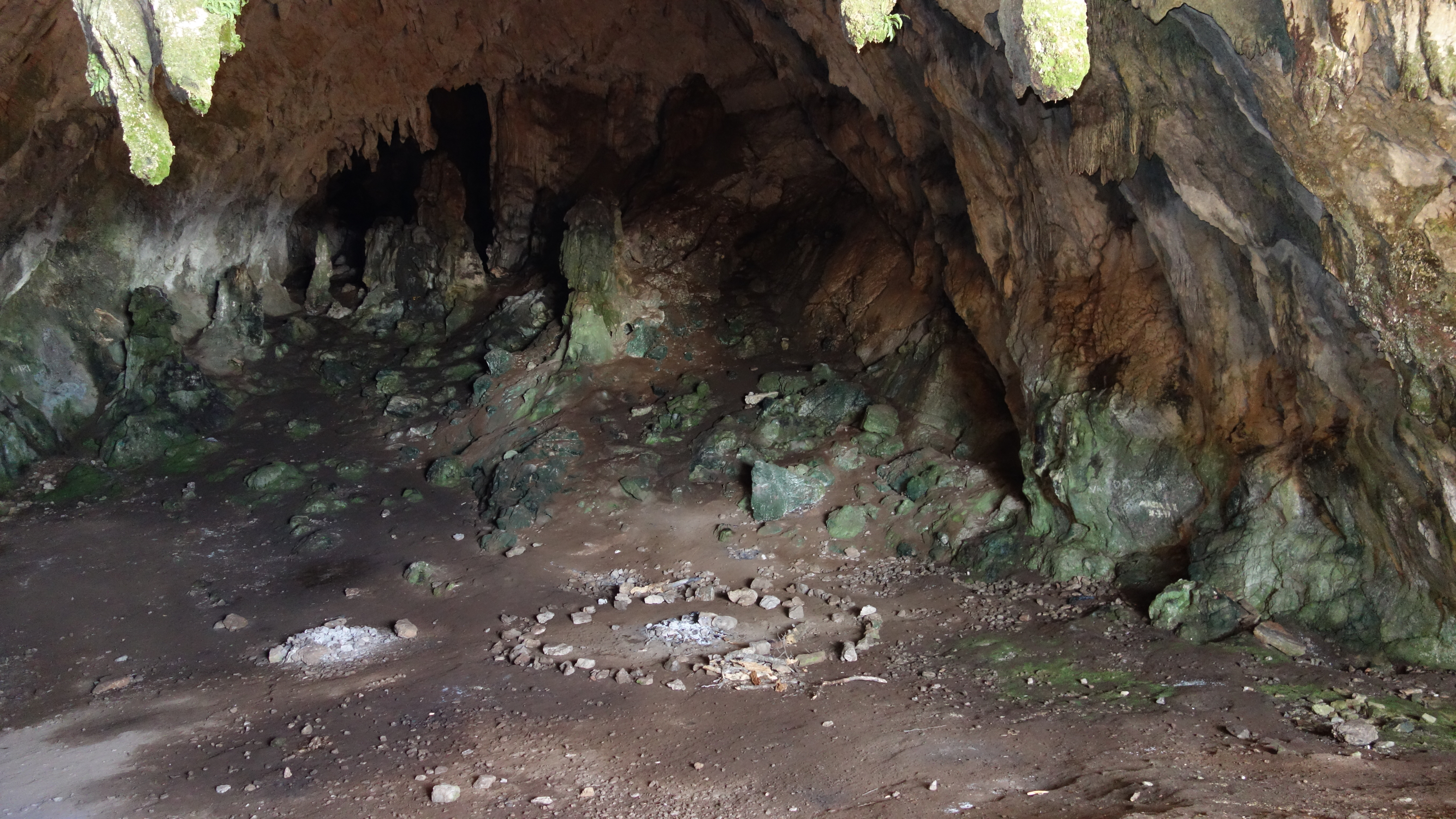 Corykian Cave interior